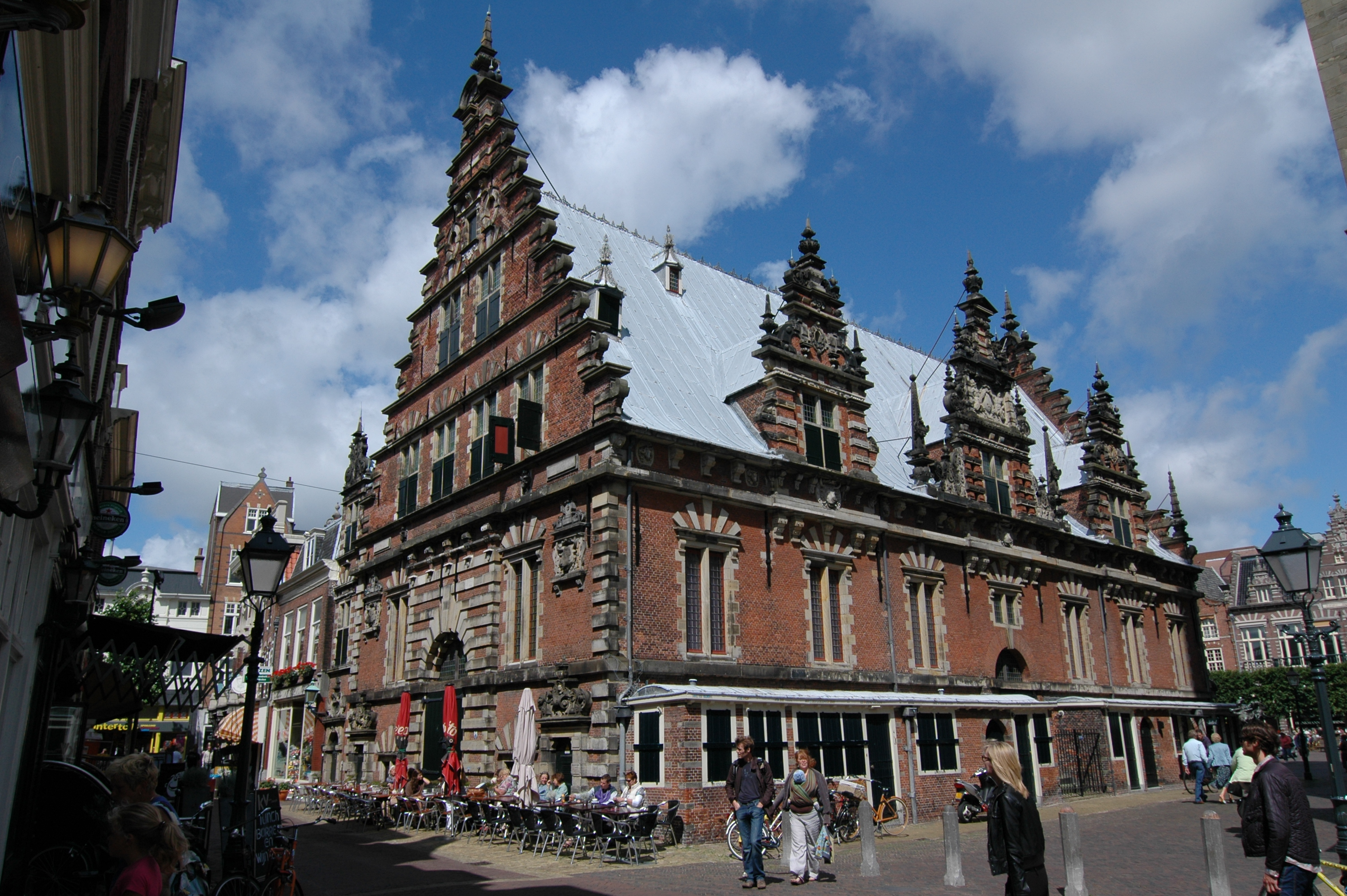 The vleeshal in Haarlem seen from the corner Spekstraat and Lepelstraat. Museum De Hallen is currently located here.